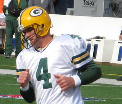 Green Bay Packers quarterback Brett Favre during on-field warmups at Ralph B. Wilson Stadium in Orchard Park, New York, prior to a game against the Buffalo Bills on November 5, 2006.